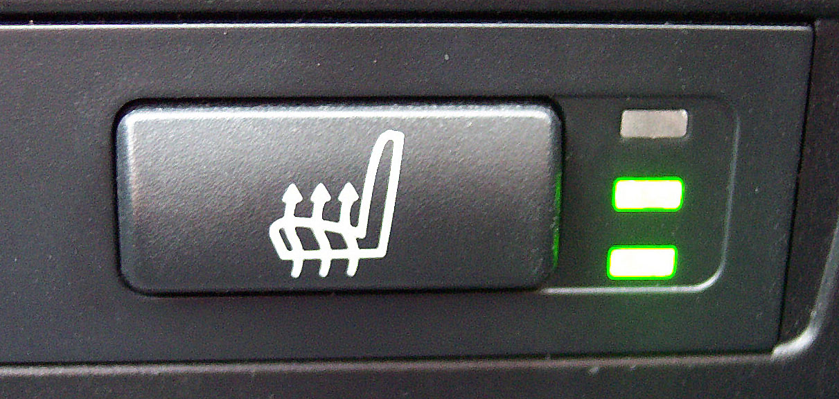 Heated Seats BMW 5 Series (E39)